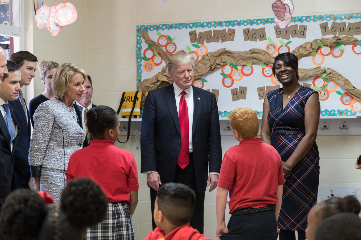 President Donald Trump and U.S. Secretary of Education Betsy DeVos participate in a tour of Saint Andrew's Catholic School on Friday, March 3, 2017, Orlando, Florida. (Official White House Photo by Shealah Craighead)